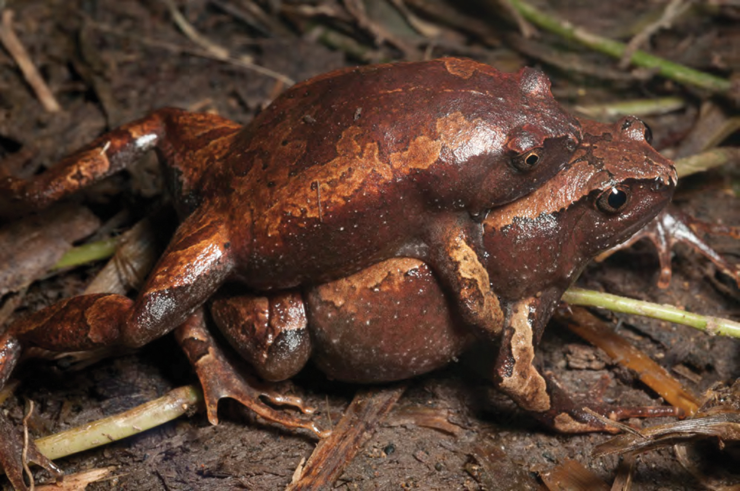 Kaloula rigida male (KU 330507) and female (KU 330508) in amplexus, following heavy rains. Photo: RMB.